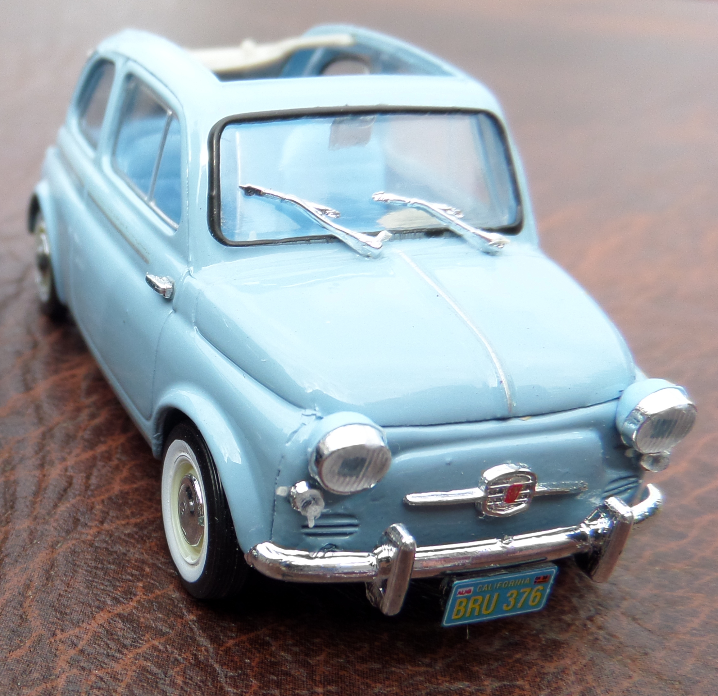 Fiat 500 America (USA market Fiat 500)